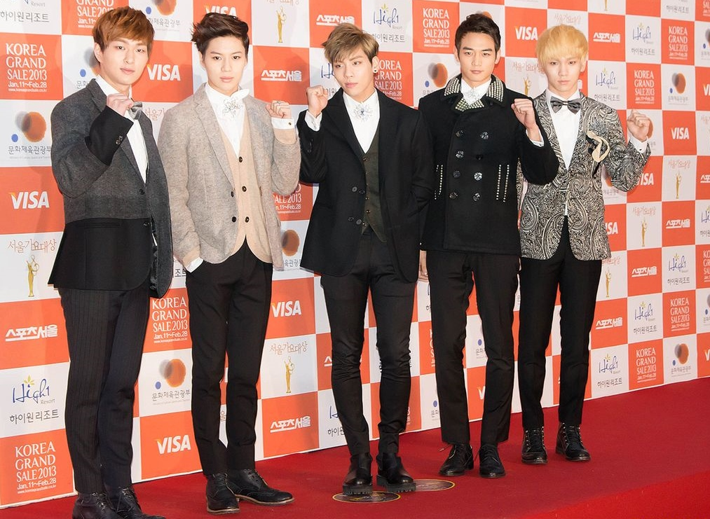 Shinee at the Seoul Music Awards Red Carpet on January 31, 2013.